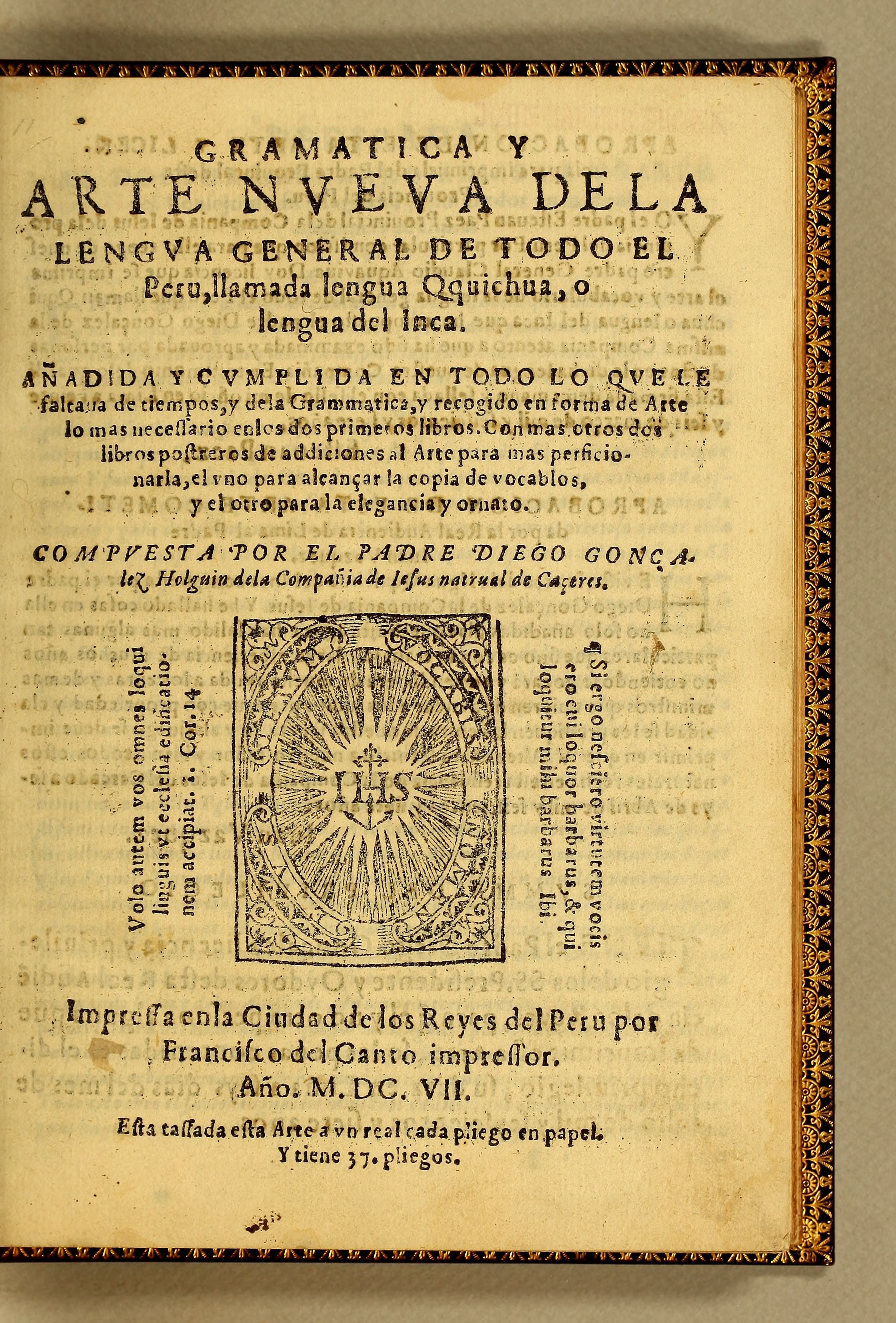 Title page of original 1607 edition of Gramatica y arte nueua de la lengua general de todo el Peru, llamada lengua Quichua, o lengua del Inca by Diego González Holguín